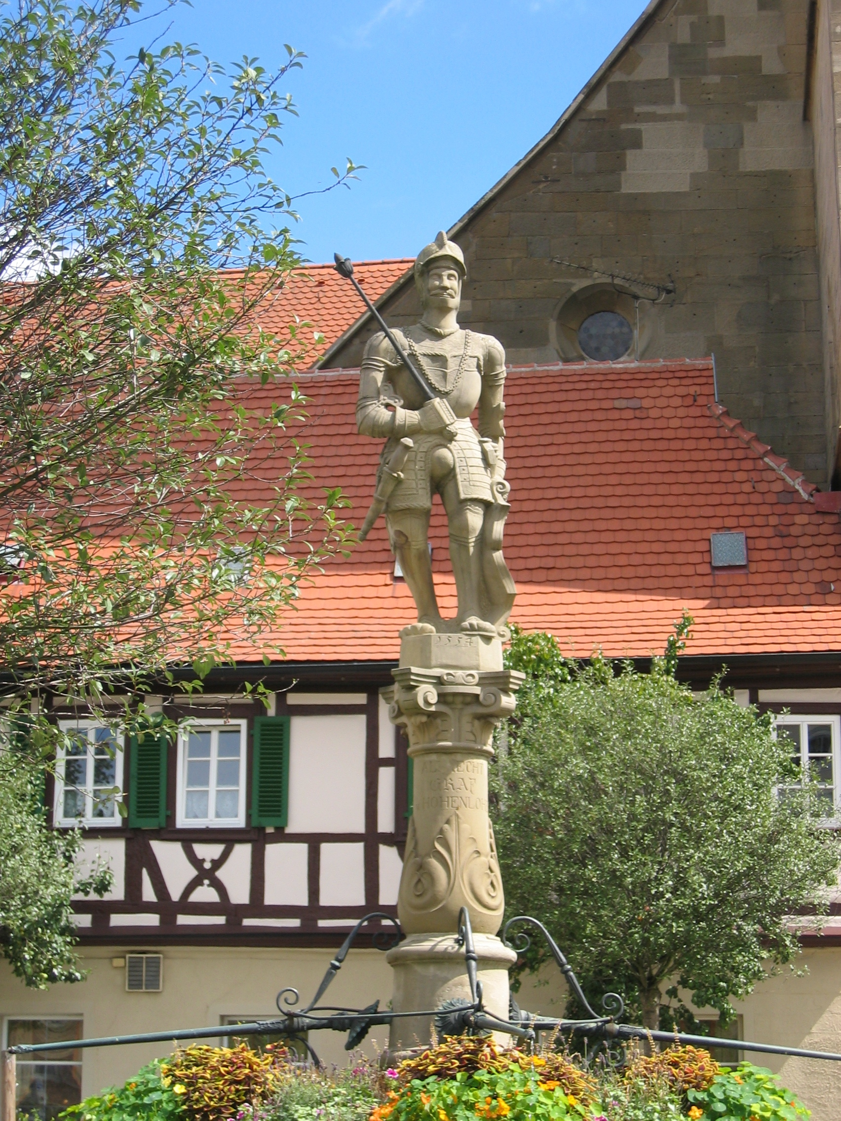 Oehringen (Germany), fountain on market place (Marktplatzbrunnen)